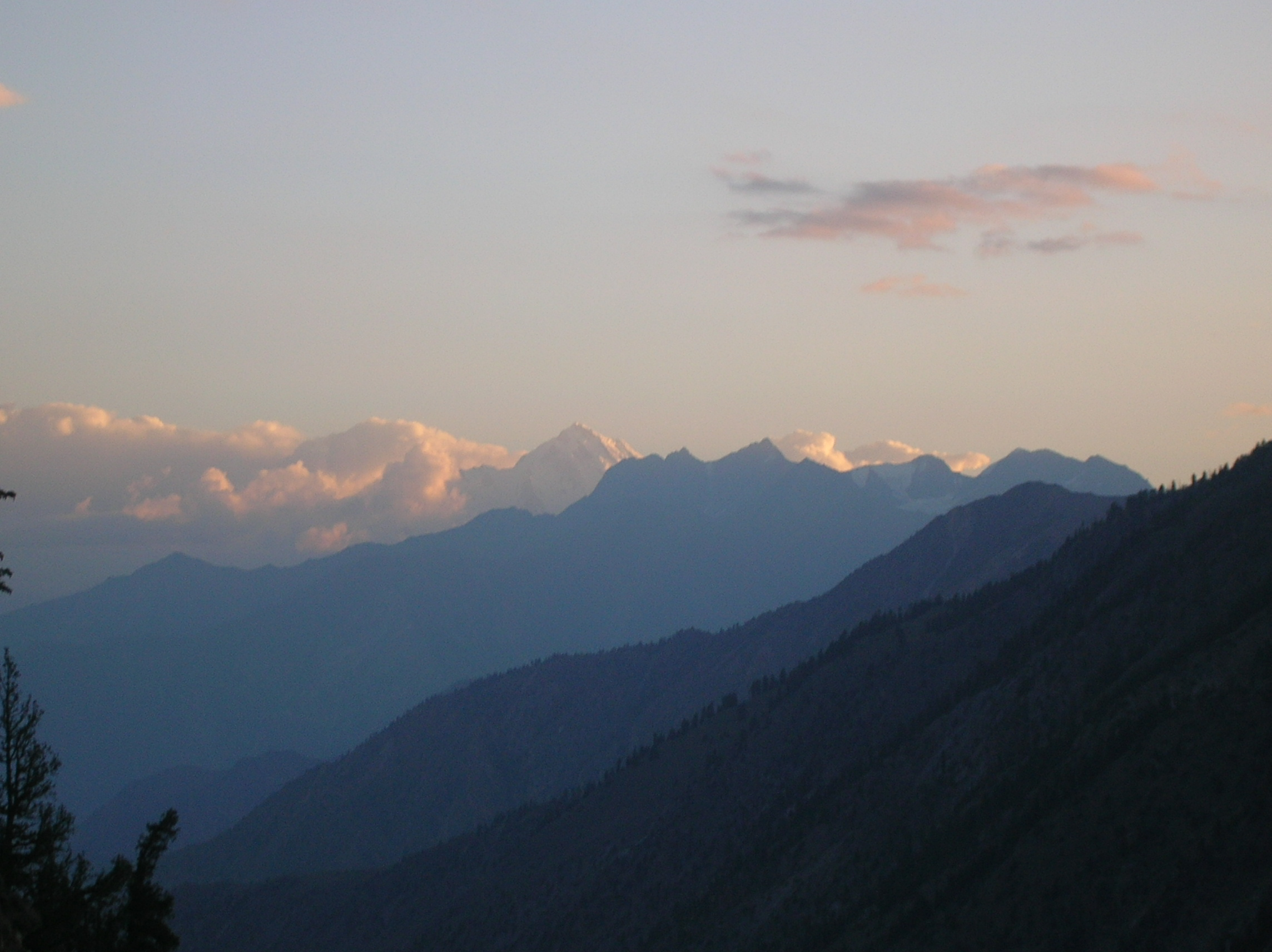 View from the north side of Nanga Parbat with Haramosh (7406 m) in the background